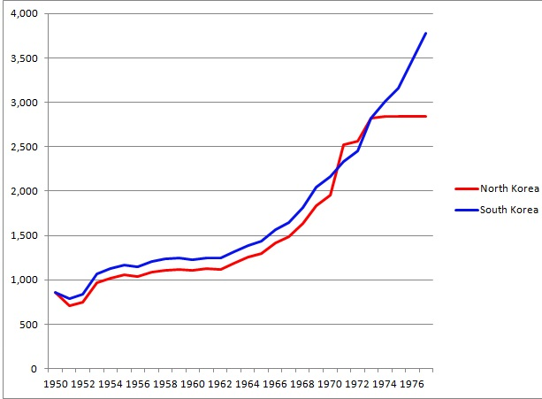 S. Korea / N. Korea GDP per capita (in 1990 Geary-Khamis dollars) 1950-1977.